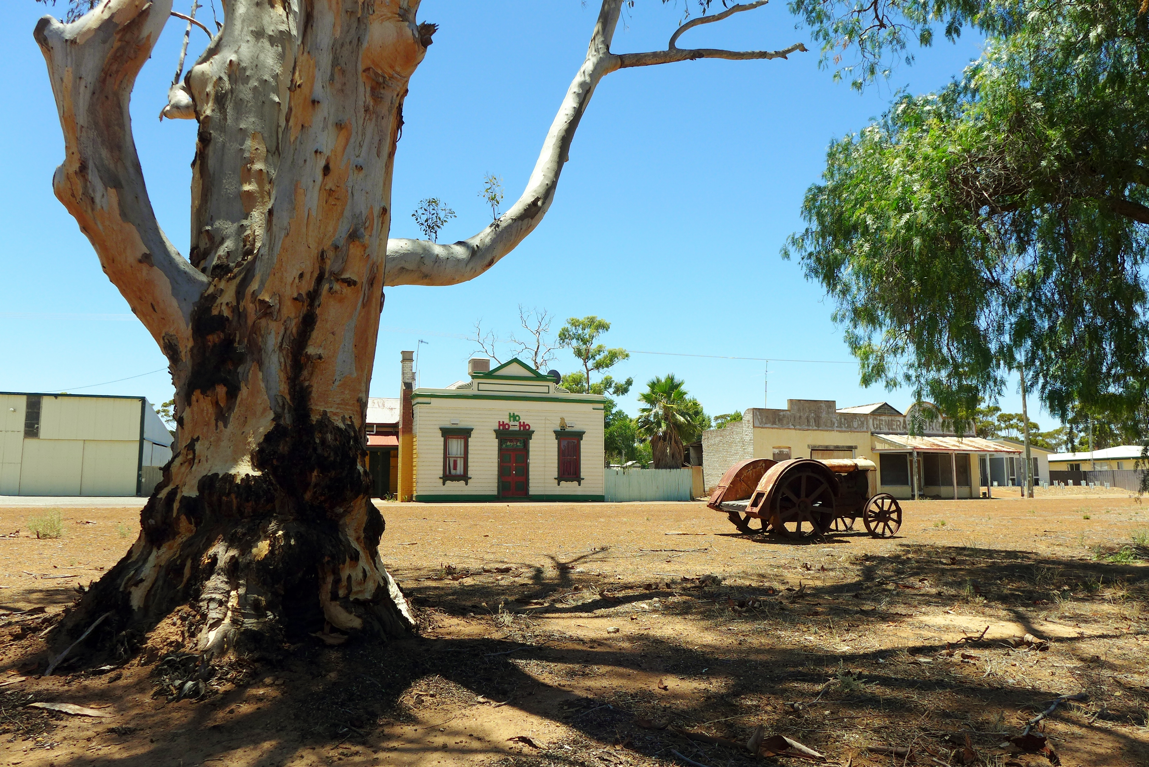 View of Wilson Street, the main street of Kununoppin, Western Australia.